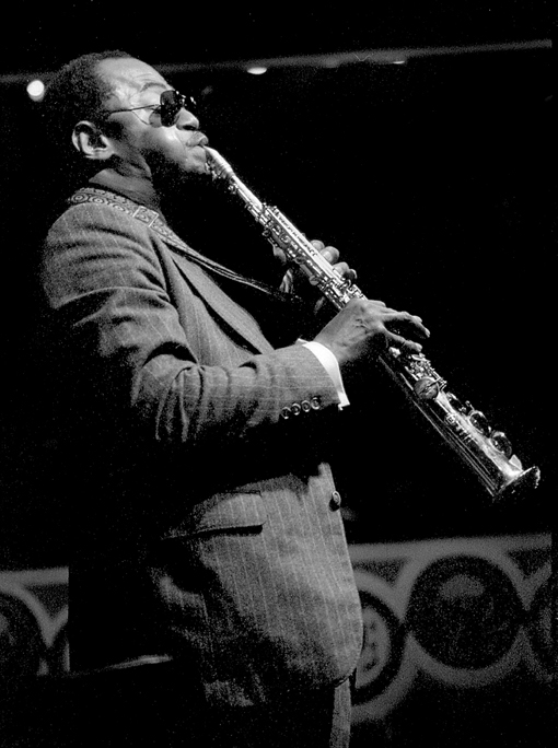 Archie Shepp at Keystone Korner, San Francisco, August 19, 1982. Photo by Brian McMillen /